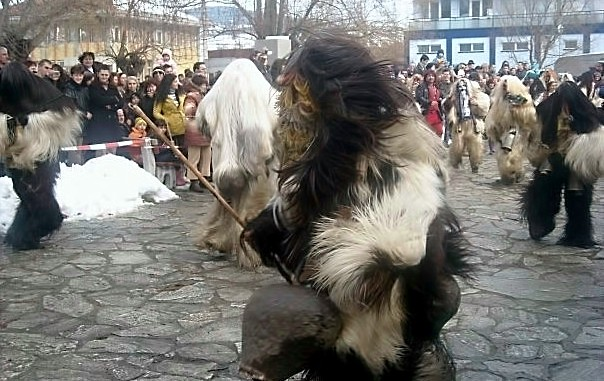 Jomalovden v Kalugerovo